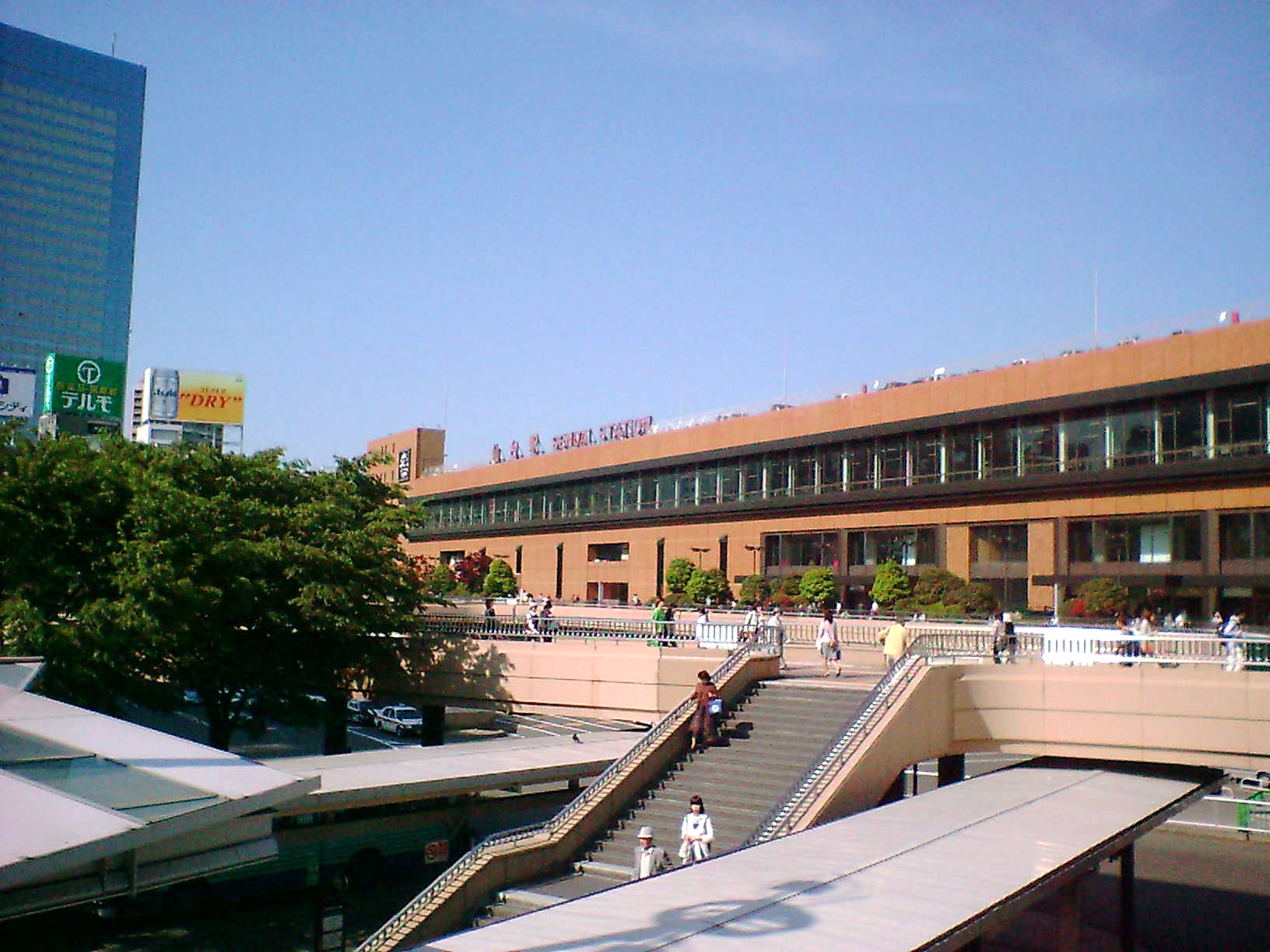 Sendai train station in Aoba-ku, Sendai, Miyagi.Hình:Eki-Sendai.jpg